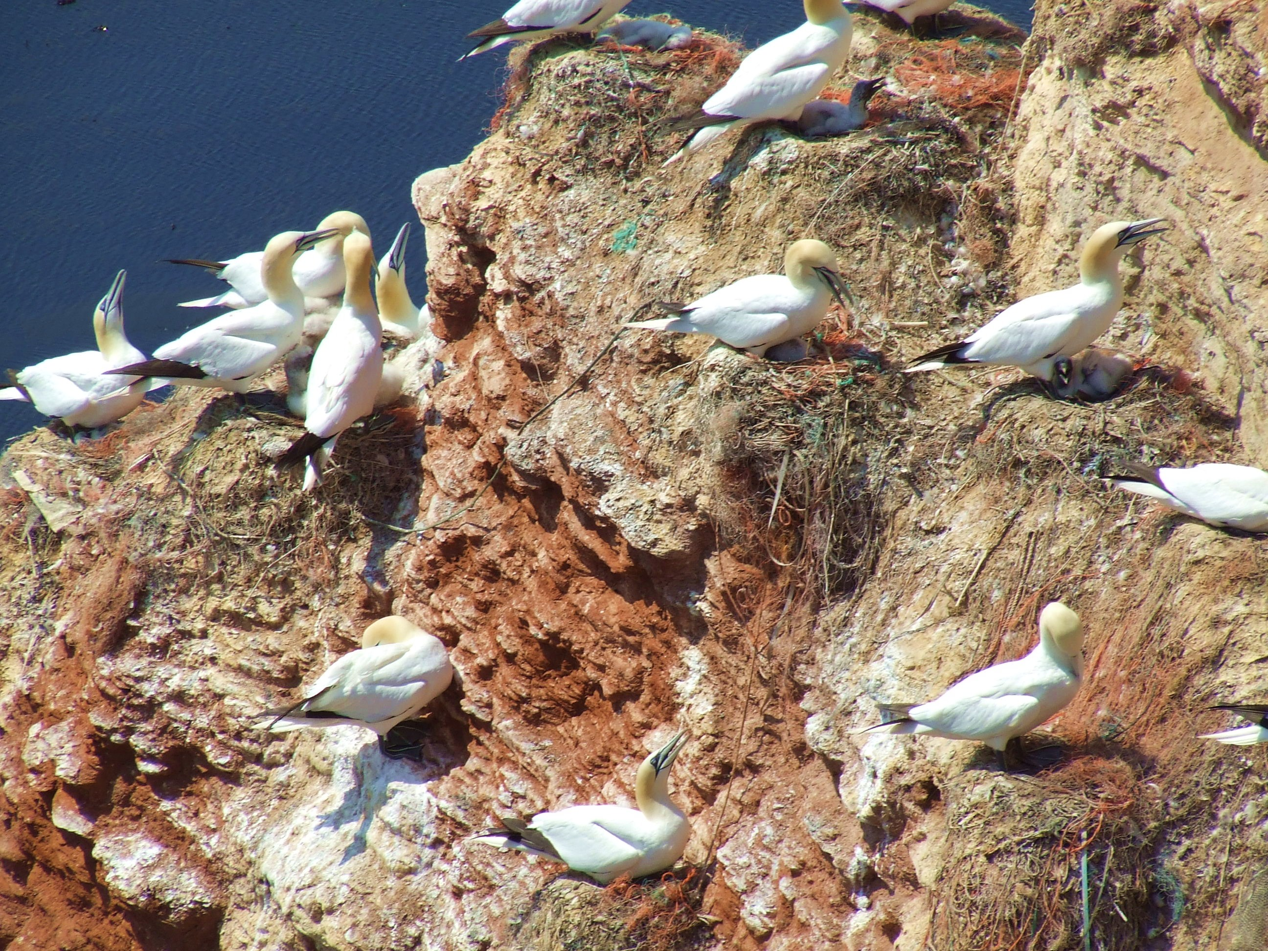 Northern Gannets (Morus bassanus) nest on the cliffs of Heligoland, nothern Germany